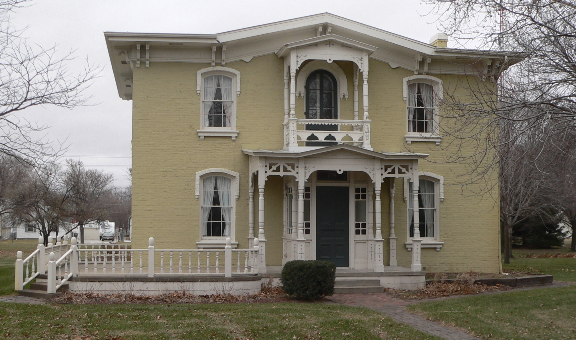 George and Nancy Turner house, located at 78 S. C Street in Fremont, Nebraska; seen from the west.